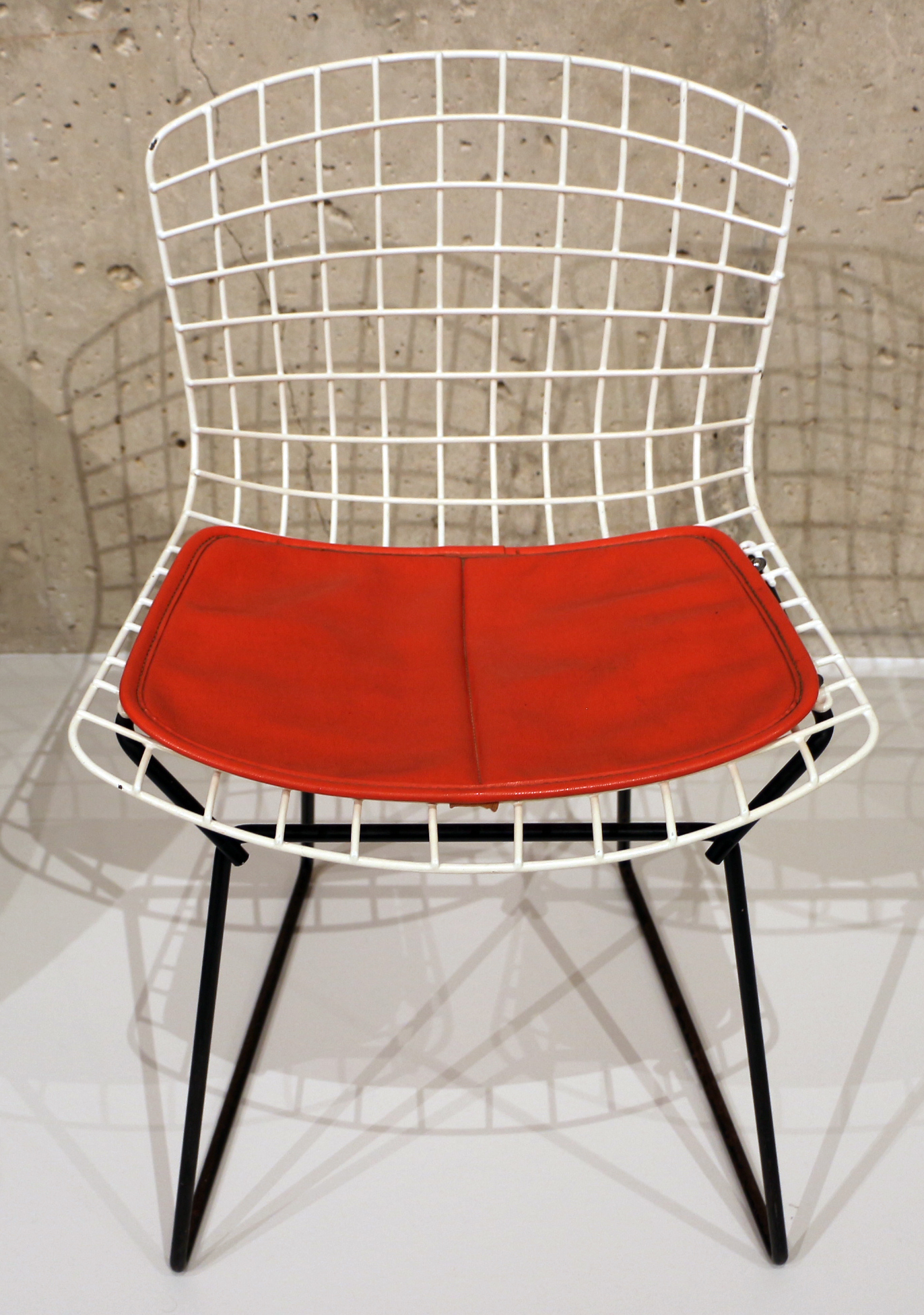 Furniture in the Milwaukee Art Museum